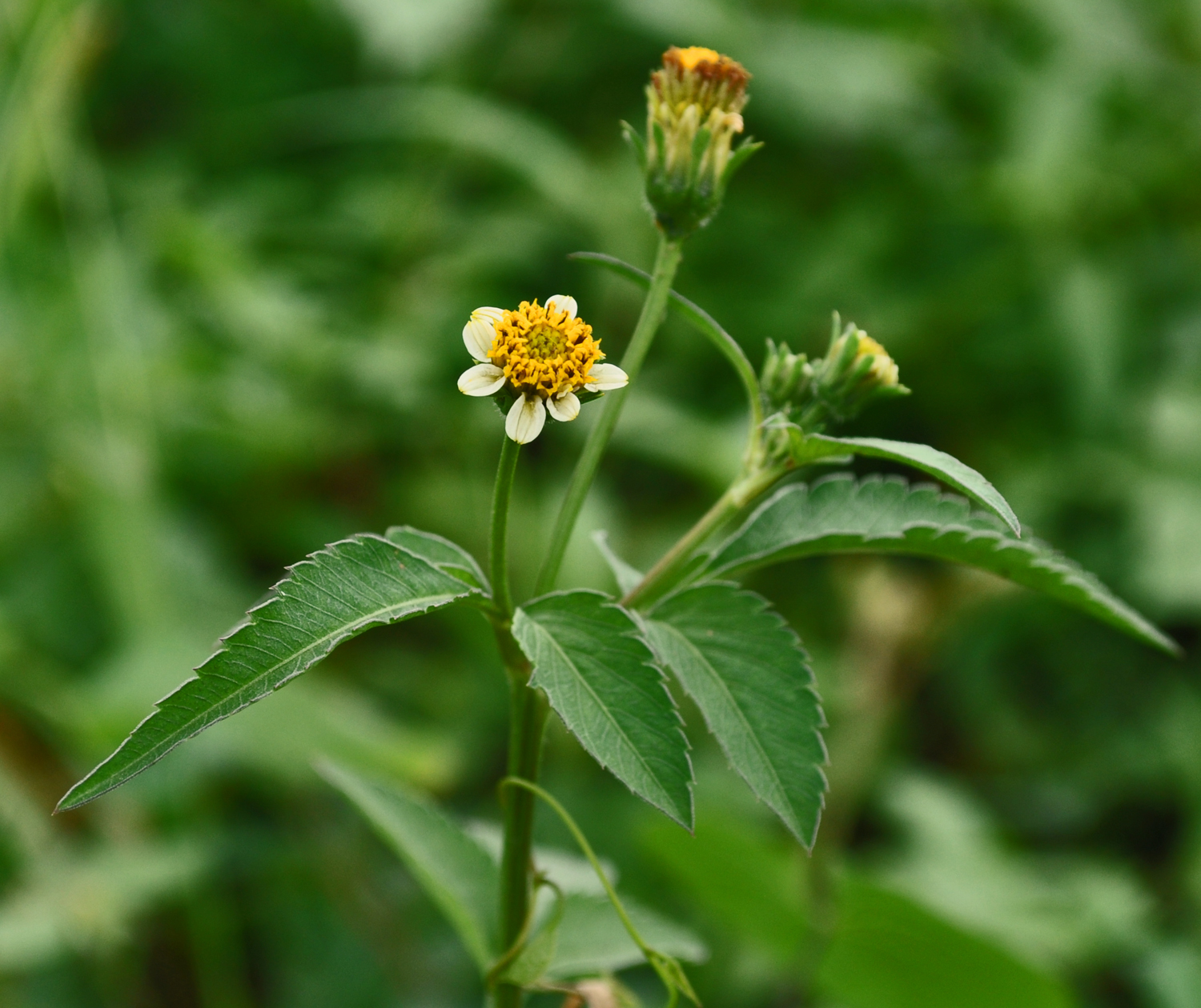 Bidens pilosa var. minor, leaves and flower head. Bogor, West Java.